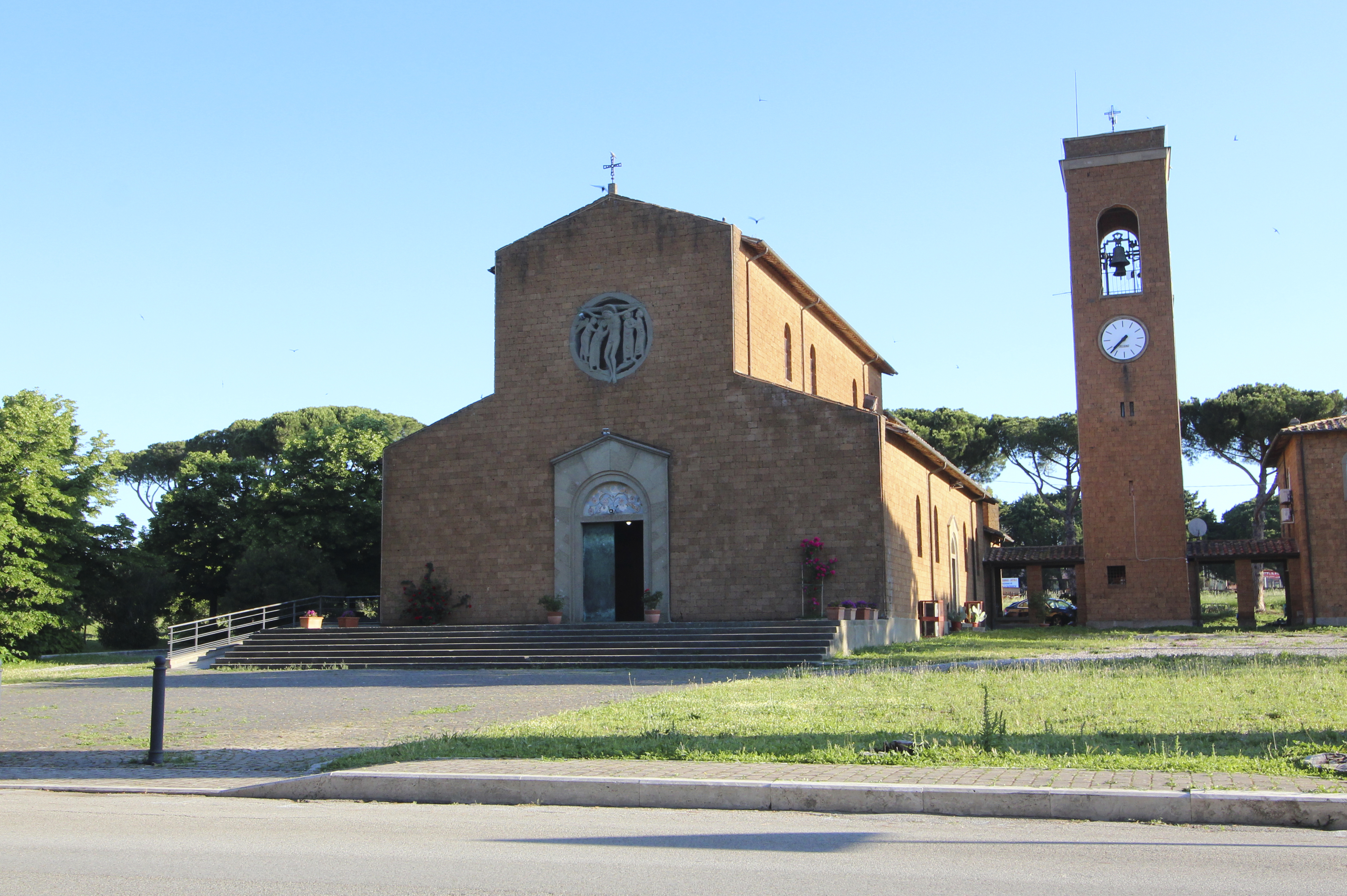 Church Chiesa del Cuore Immacolato di Maria, Borgo Carige, hamlet of Capalbio, Province of Grosseto, Tuscany, Italy